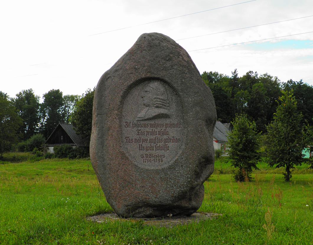 Gotthard Friedrich Stender memorial stoneLatviešu: Stendera piemineklis Lašos